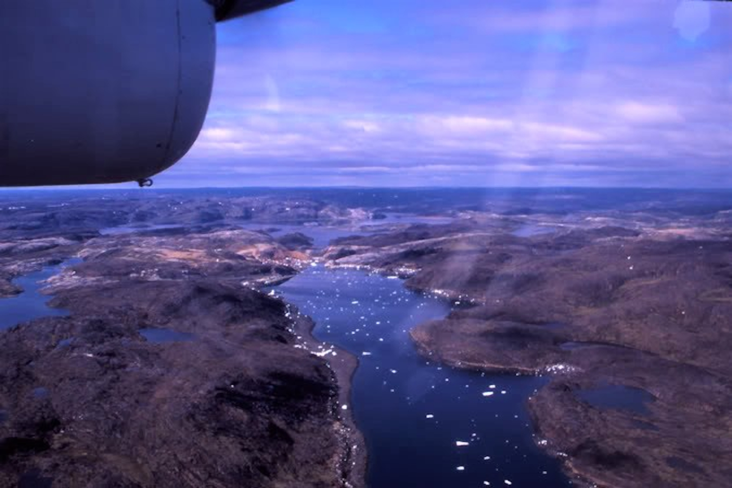 Via Air from Kimmirut ("Lake Harbour" until 1996) to Pangnirtung on a side trip to Kimmirut when our main objective was Akshayuk Pass - watched an Inuit carver transform a shapeless block of soapstone into an admirable polar bear in about 90 minutes.